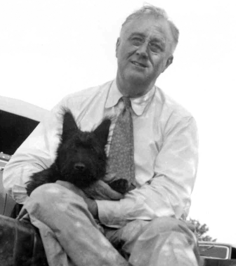 Photograph of President Franklin D. Roosevelt with his dog Fala at a picnic on "Sunset Hill" near Pine Plains, NY. Fala is four months old.